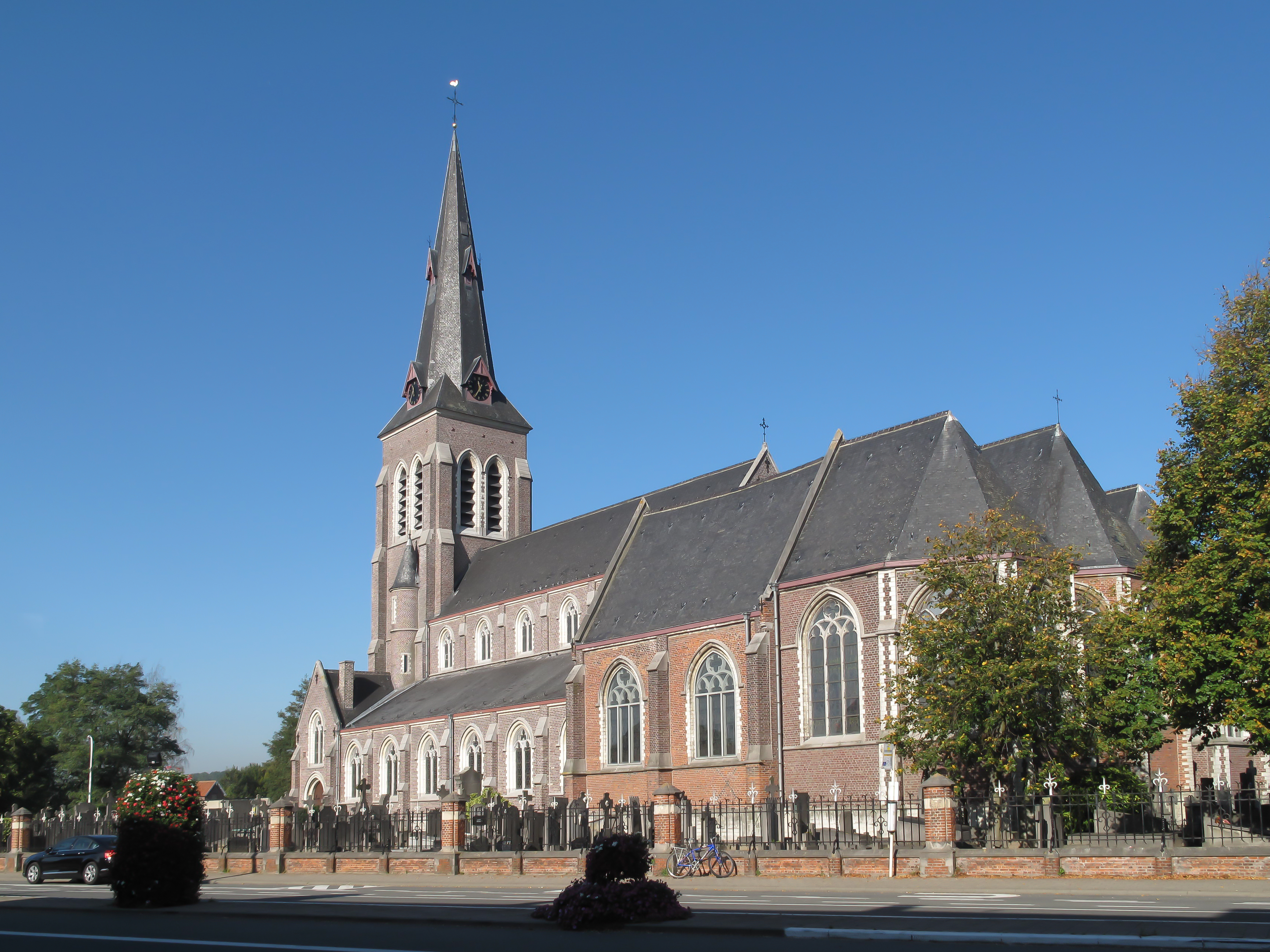 Zaffelare, church: Onze Lieve Vrouw en Sint Petruskerk